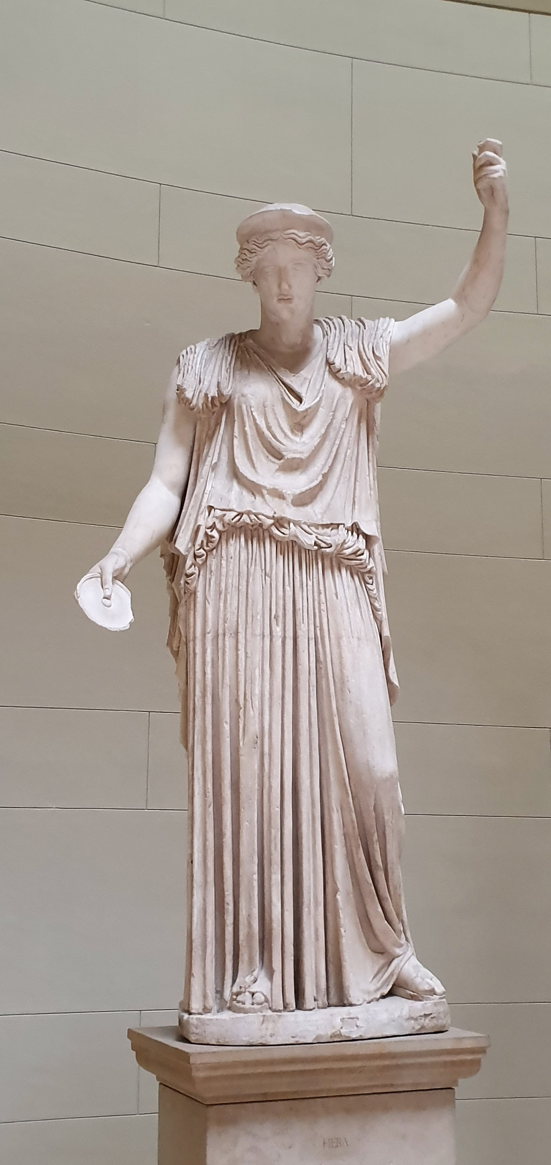 Hera at Rotunda of Altes Museum